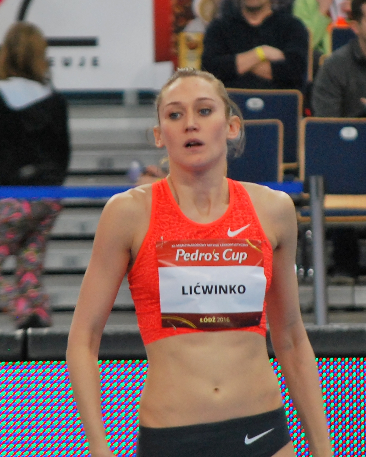 Kamila Lićwinko, high jumper from Poland, Pedro's Cup Łódź 2016